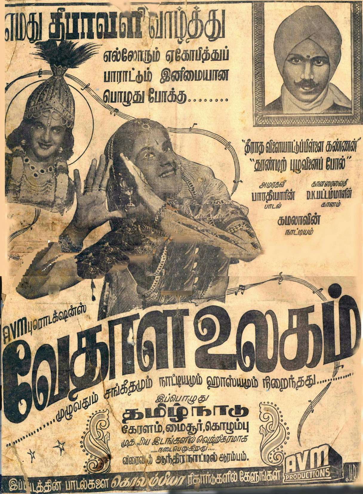 Vedala Ulagam tamil language movie poster